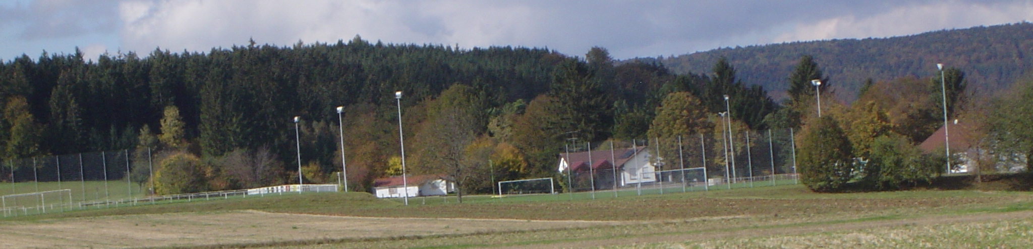 The "Häldele"